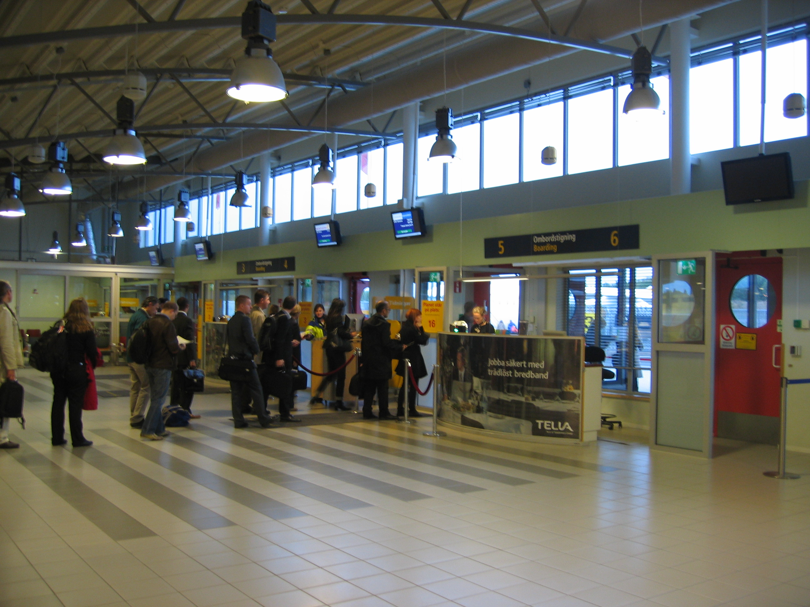 Departure hall at Bromma airport, Stockholm, Sweden